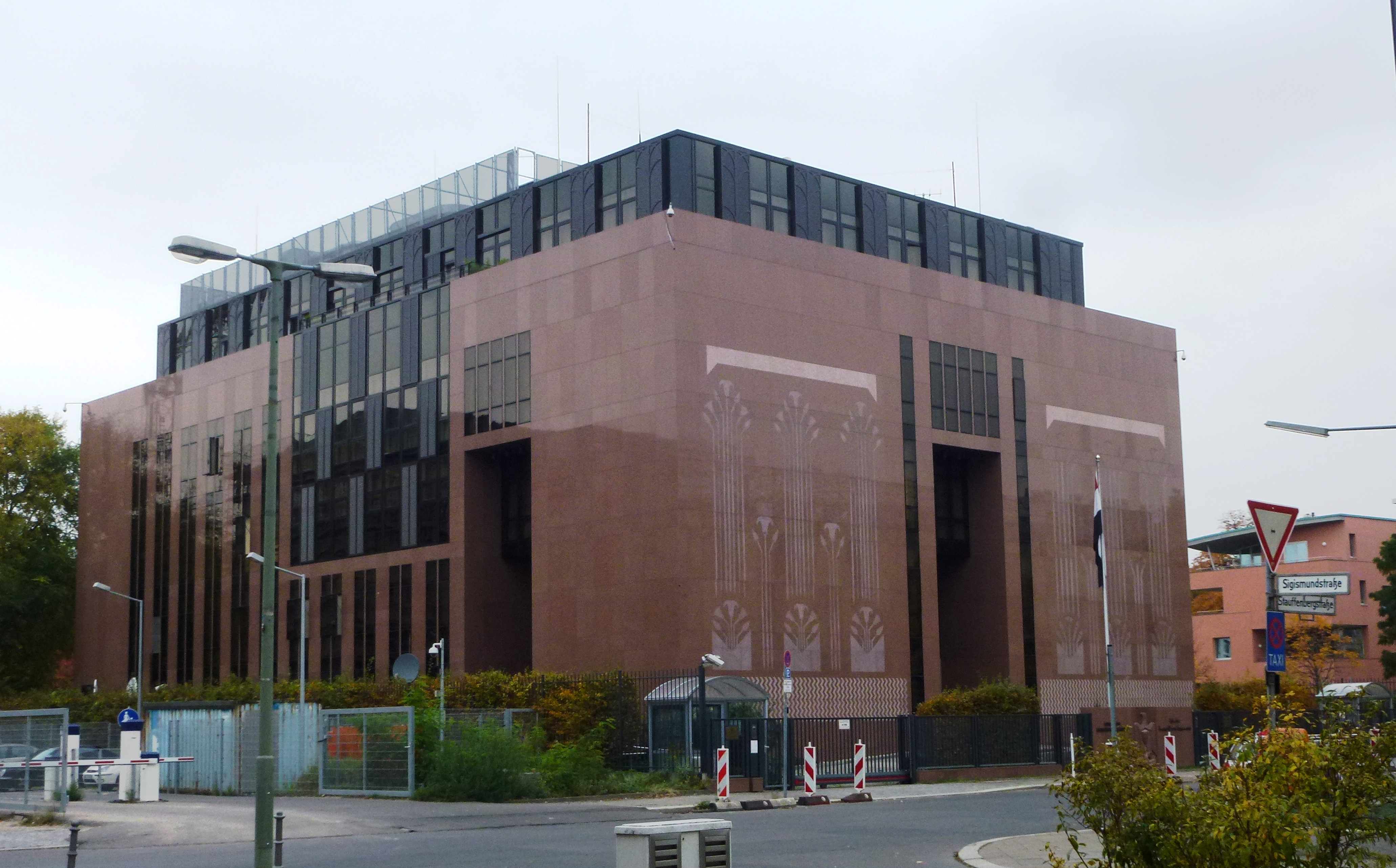 Egyptian Ambassy in Berlin Germany